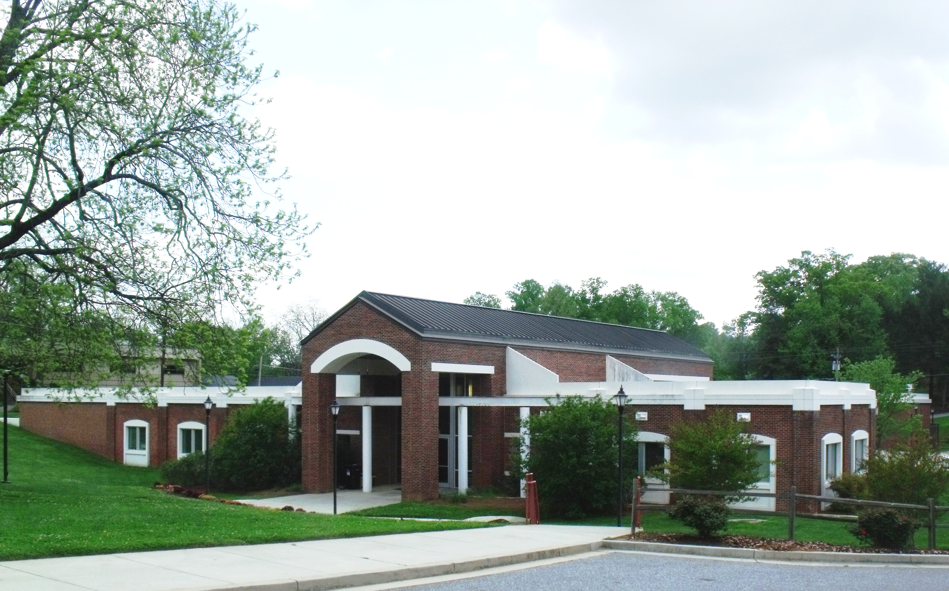 The Brook Pennington Military Leadership Center at the University of North Georgia is named in honor of former WWII veteran and Georgia state congressman Brook Pennington.